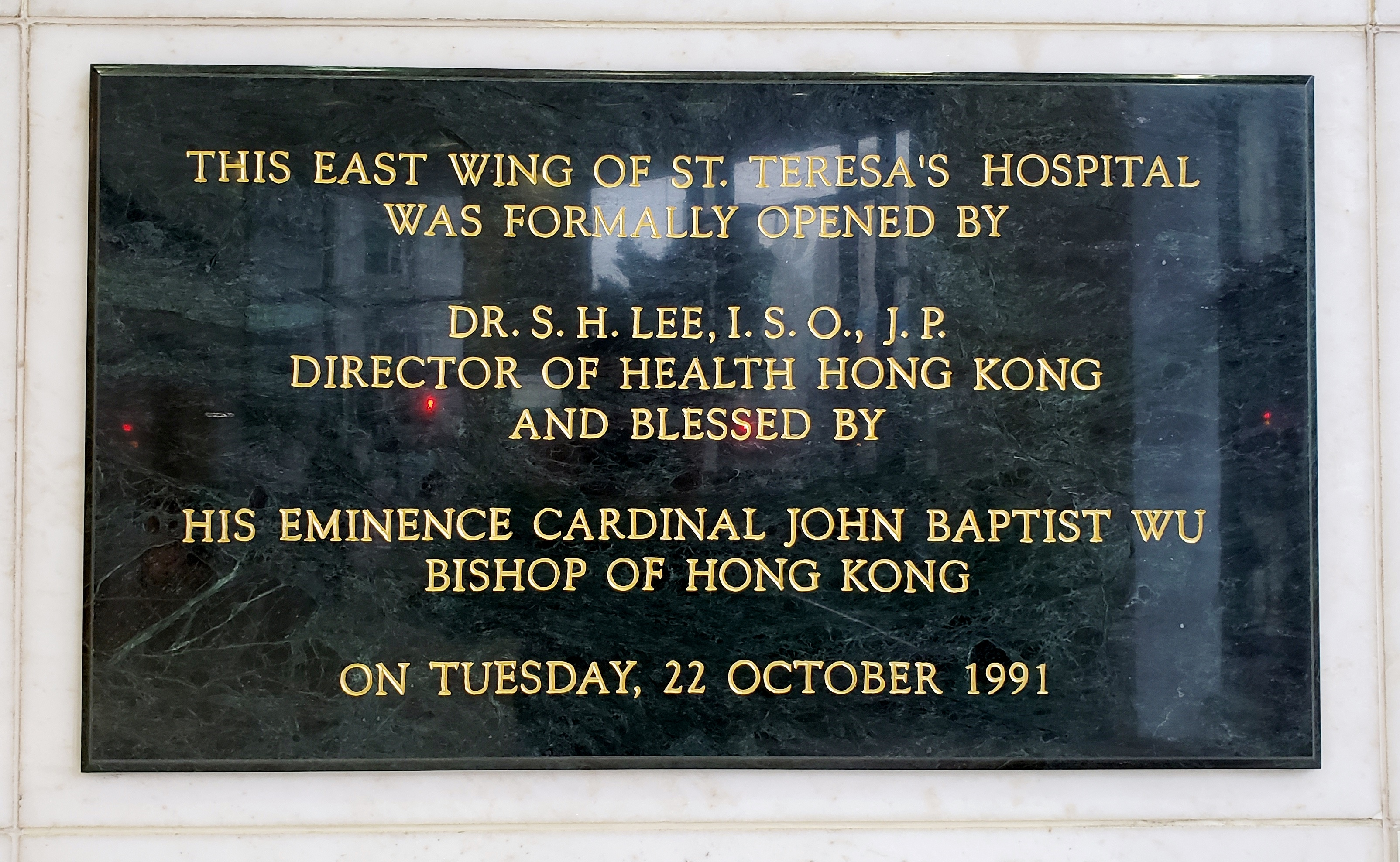 This East Wing of St. Teresa's Hospital was formally opened by Dr. S. H. LEE, I.S.O., J.P. Director of Health Hong Kong and Blessed by His Eminence Cardinal John Baptist Wu Bishop of Hong Kong on Tuesday, 22 October 1991